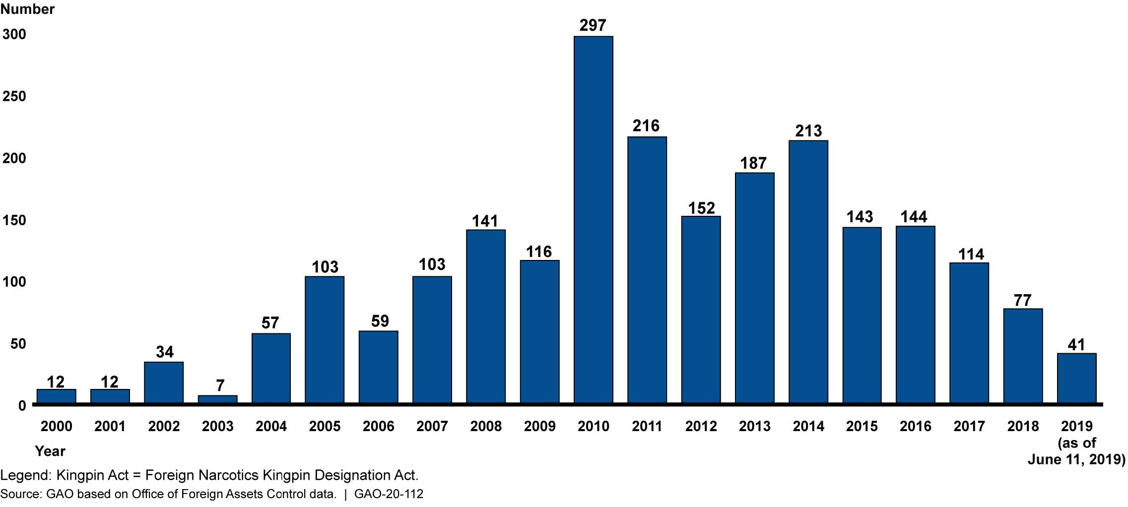 This image is excerpted from a U.S. GAO report: COUNTERNARCOTICS: Treasury Reports Some Results from Designating Drug Kingpins, but Should Improve Information on Agencies' Expenditures